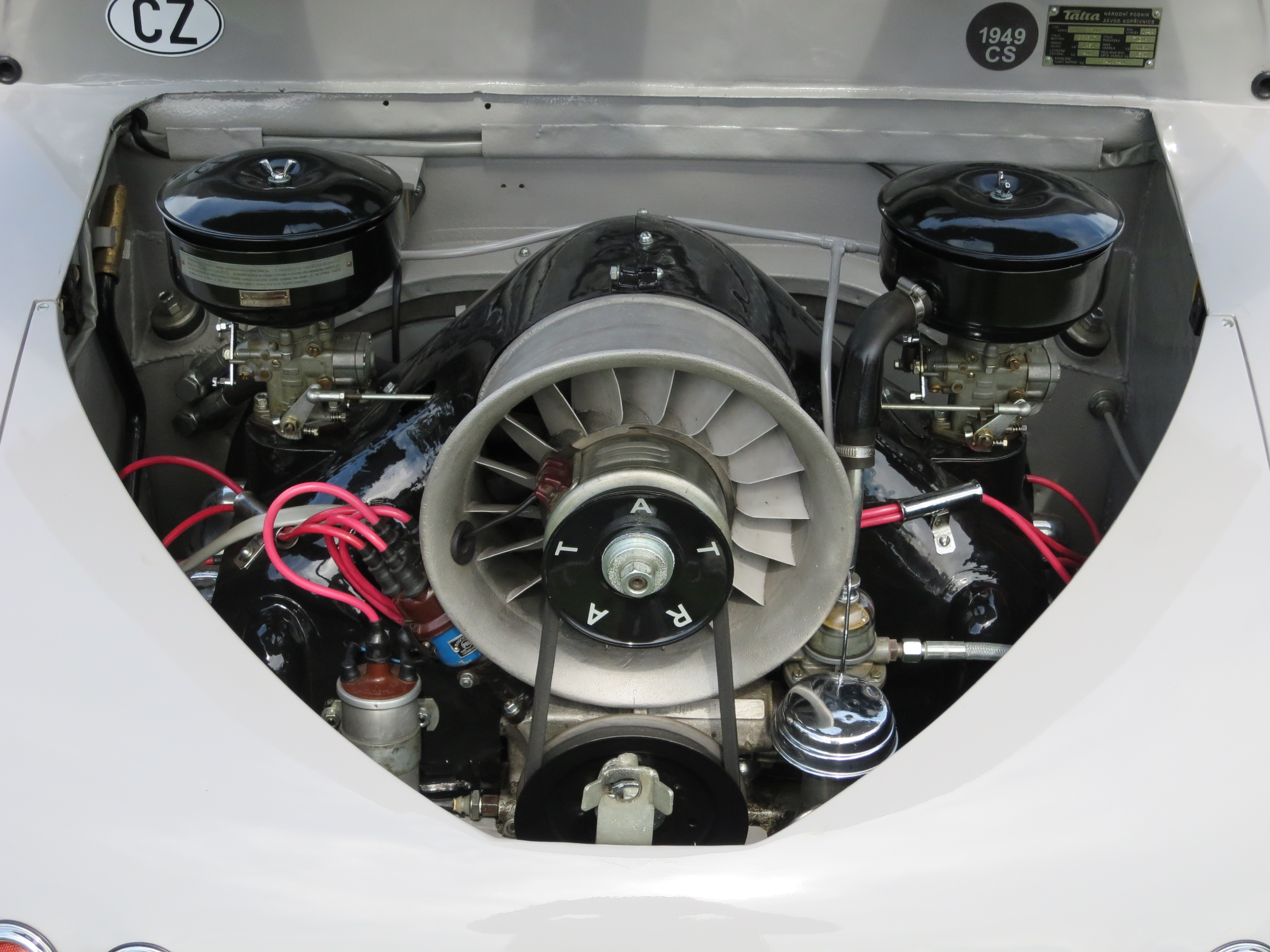 Tatra 600 Tatraplan: the engine is flat but the fan is not